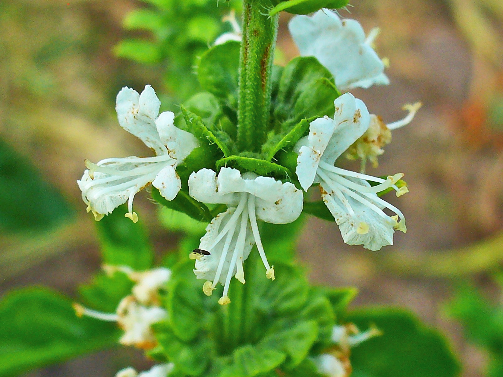 Ocimum basilicum, Lamiaceae, Sweet Basil, flowers.